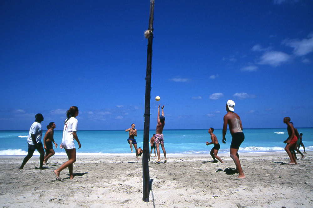 The beach in Varadero, Cuba.